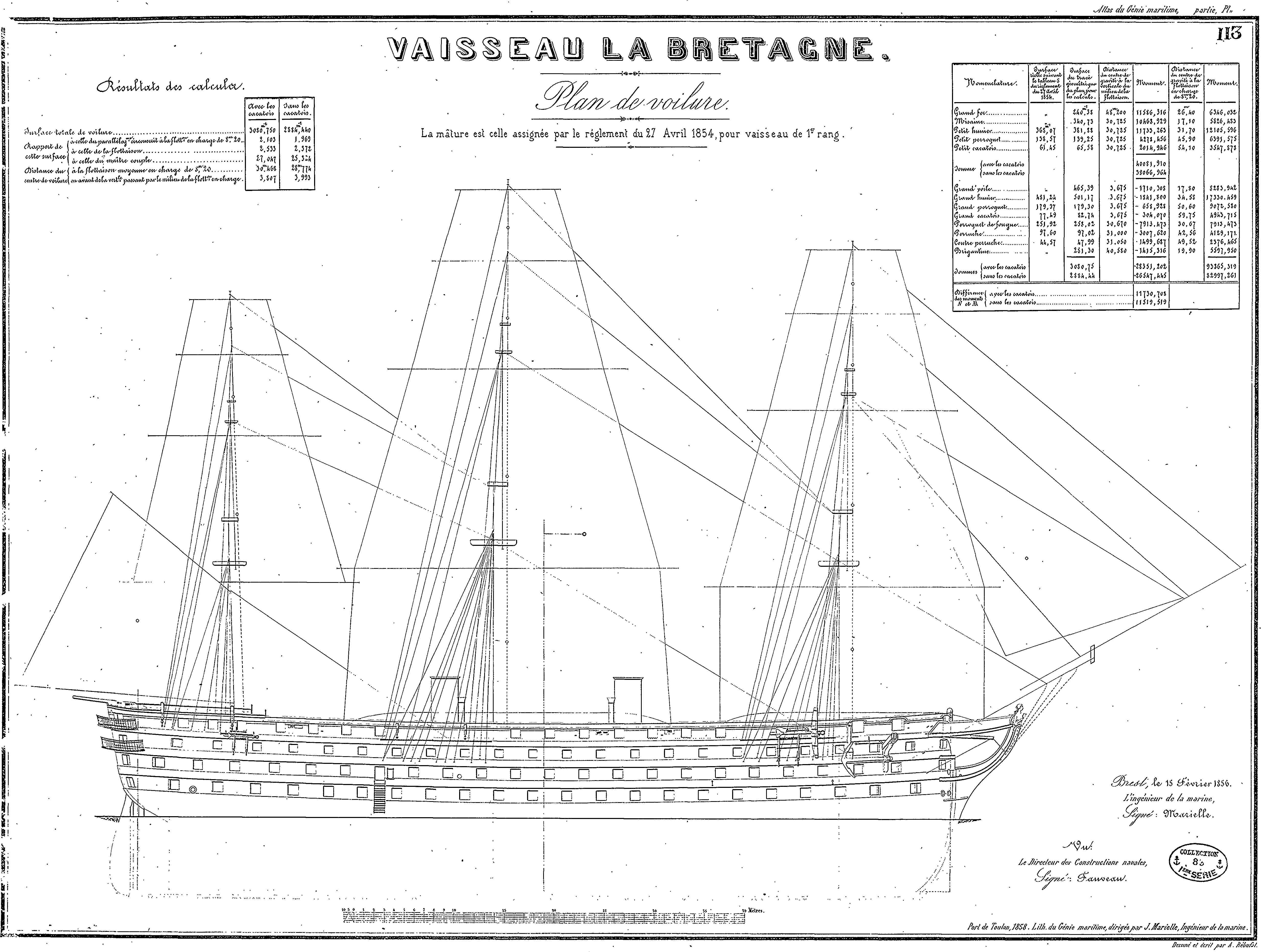 Bretagne Sails layout